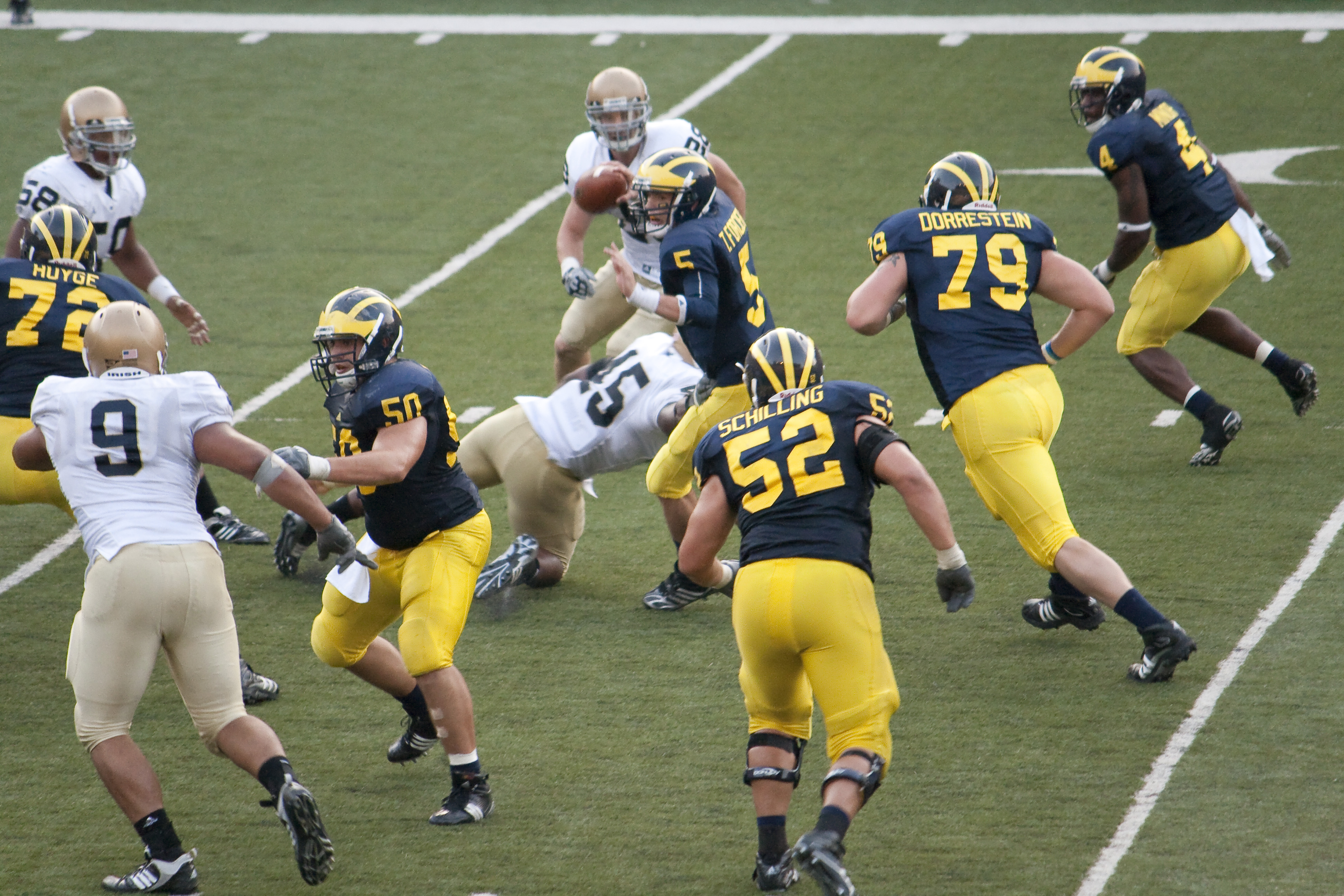 Tate Forcier eludes a tackle. Others in the picture include David Molk (50), Stephen Schilling (52), Brandon Minor (4), Perry Dorrestein (79), and Mark Huyge (72)